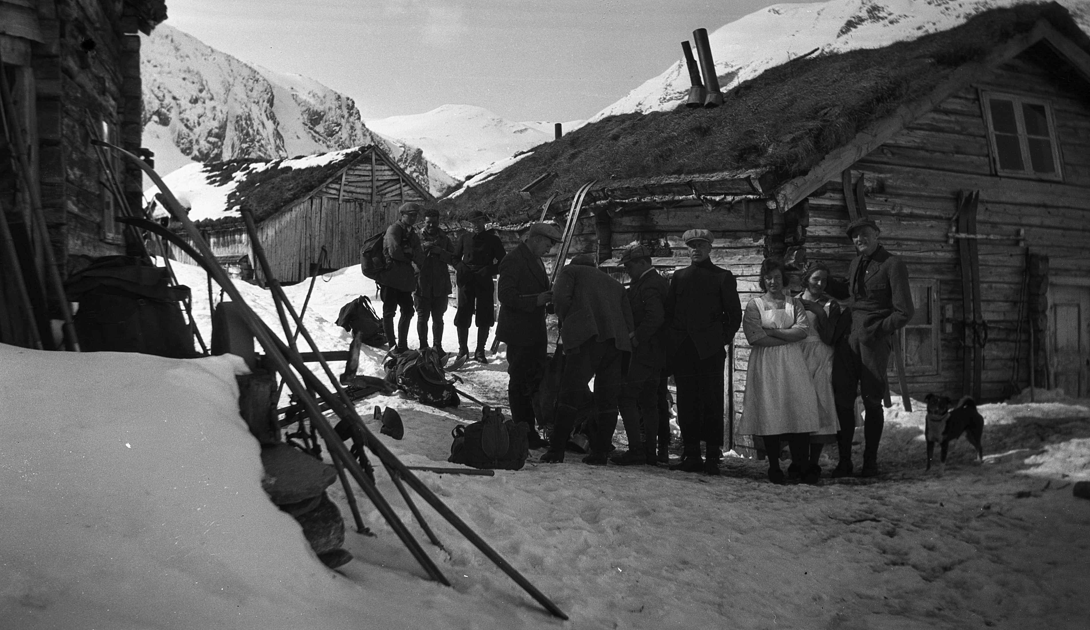 Identifier: SFFf-100585.274997 Photographer: Kristian Berge. Medium: Cellulose nitrate negative. Extent: 7 x 12 cm. Original caption (from Berge's negative album): Påsketur 1924 Opbud fra Kaldhusseter.